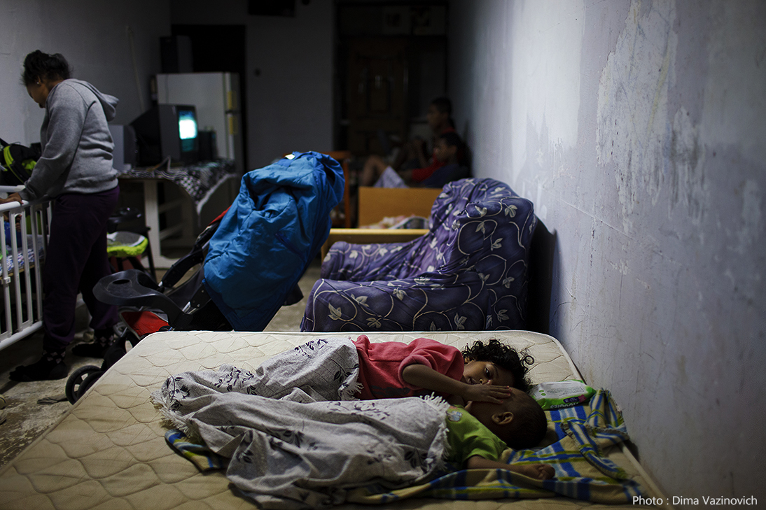 November 18, 2012 More than 500 rockets hit Israel since the beginning of Operation Pillar of Defense. The IDF will not tolerate any attacks on Israeli civilians and will continue to respond to terror emanating from Gaza. Pictured: Israeli family sleeps in a bomb shelter, after a rocket launched by Palestinian militants from Gaza strip hits the southern Israeli town of Ashkelon. For more information, see our updating post. Photo by Dima Vazinovich. For more from the IDF